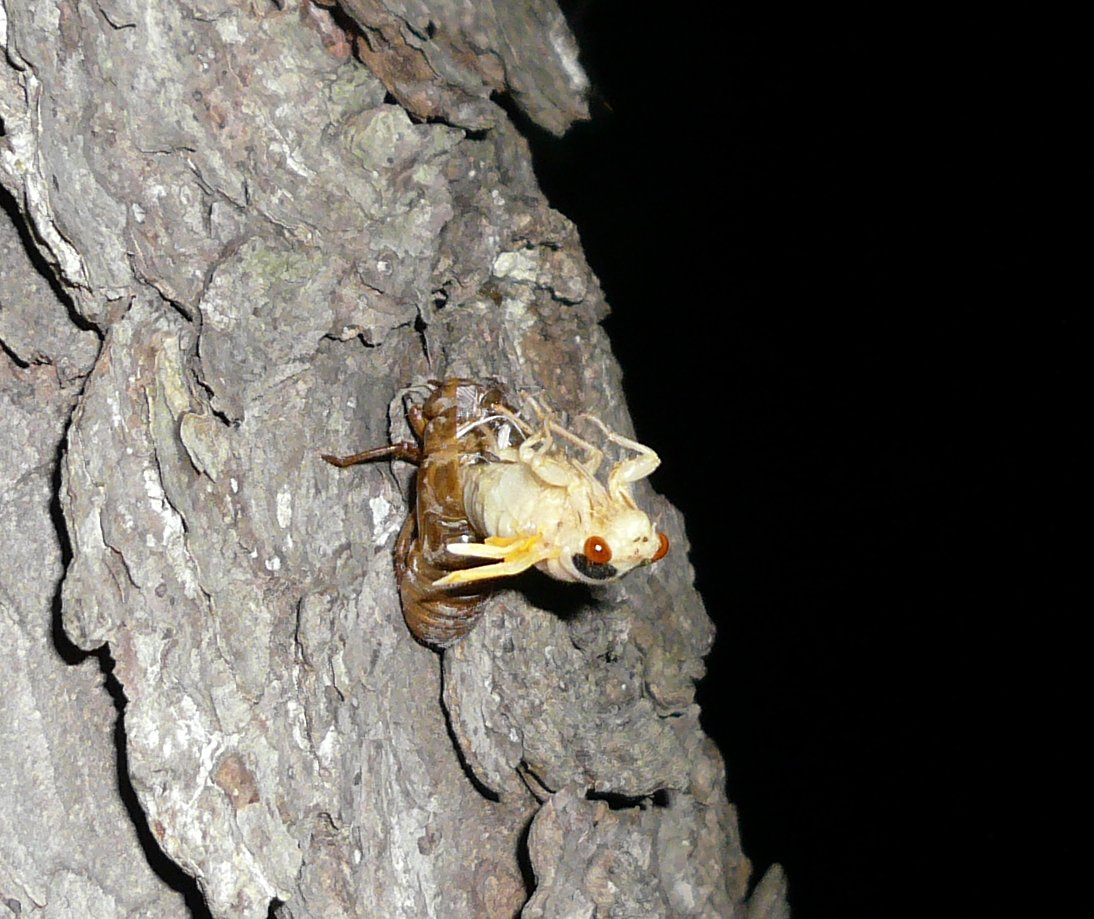 Molting Brood XIII Magicicada septendecim 17 year cicada, from the south suburbs of Chicago.